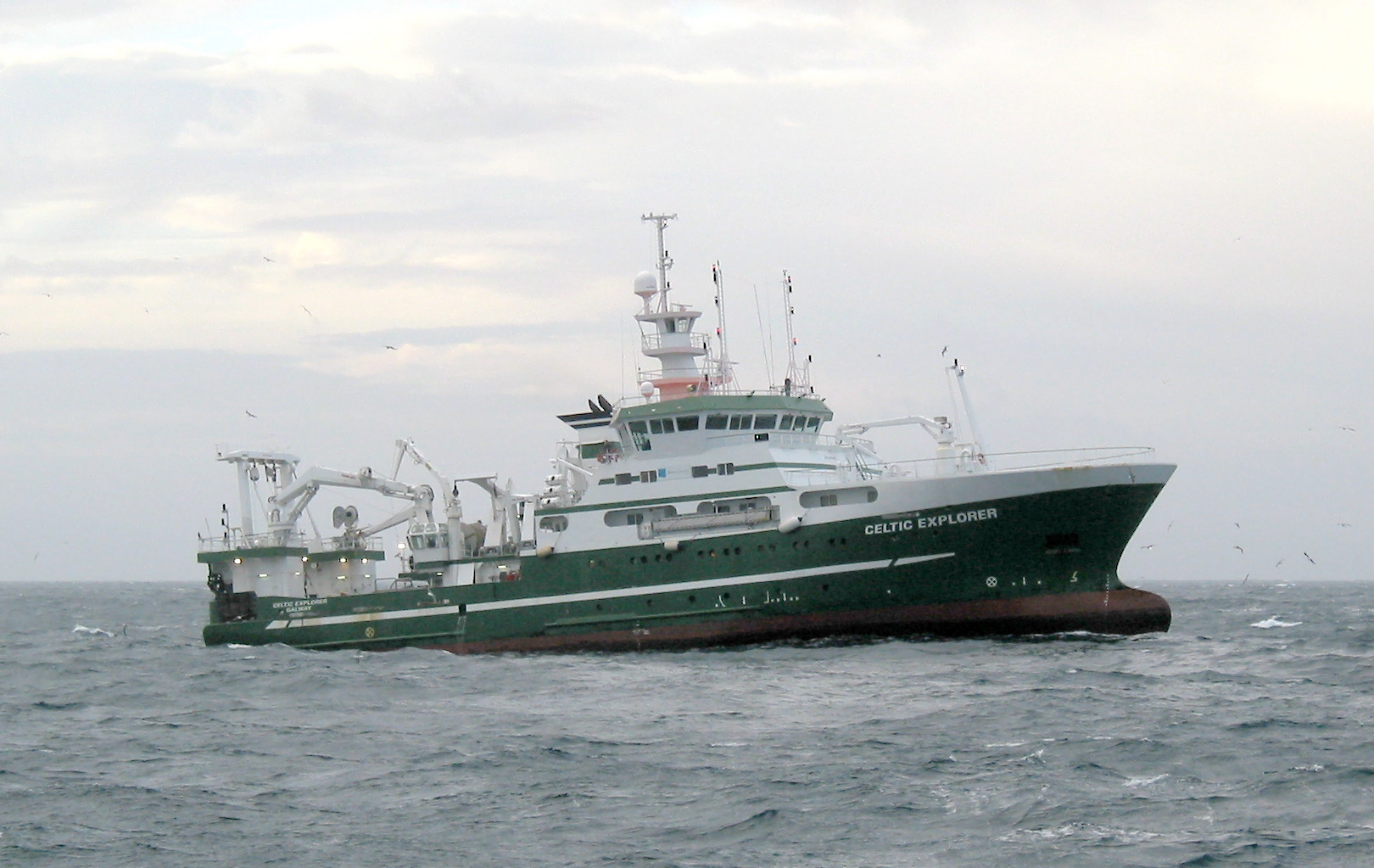 RV Celtic Explorer in Galway Bay, Ireland.